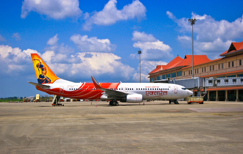 Air India Express Boeing 737-800W Bharatanatyam Dancers VT-AXE